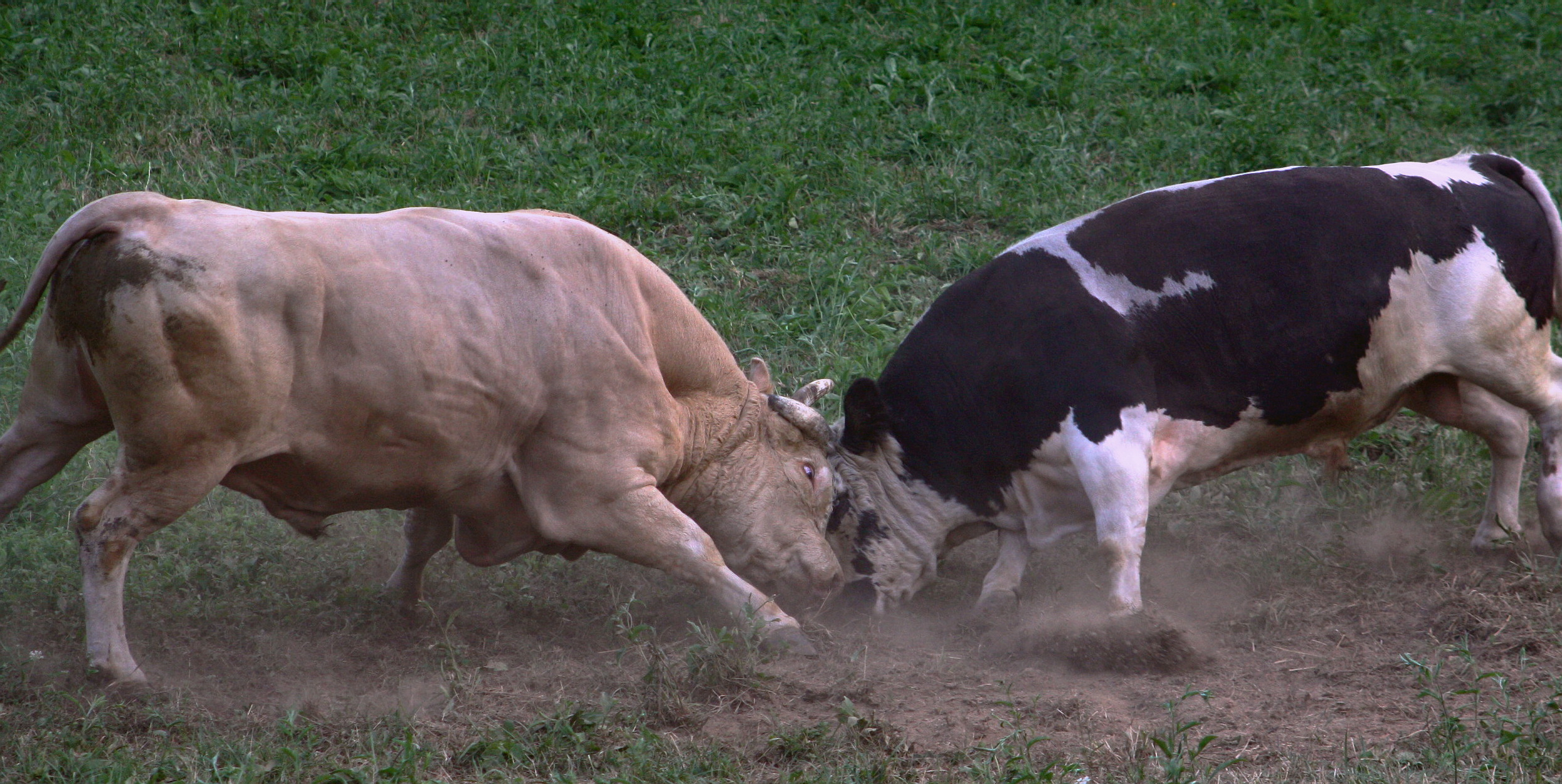 Bullfight (Korida) in Sanski Most